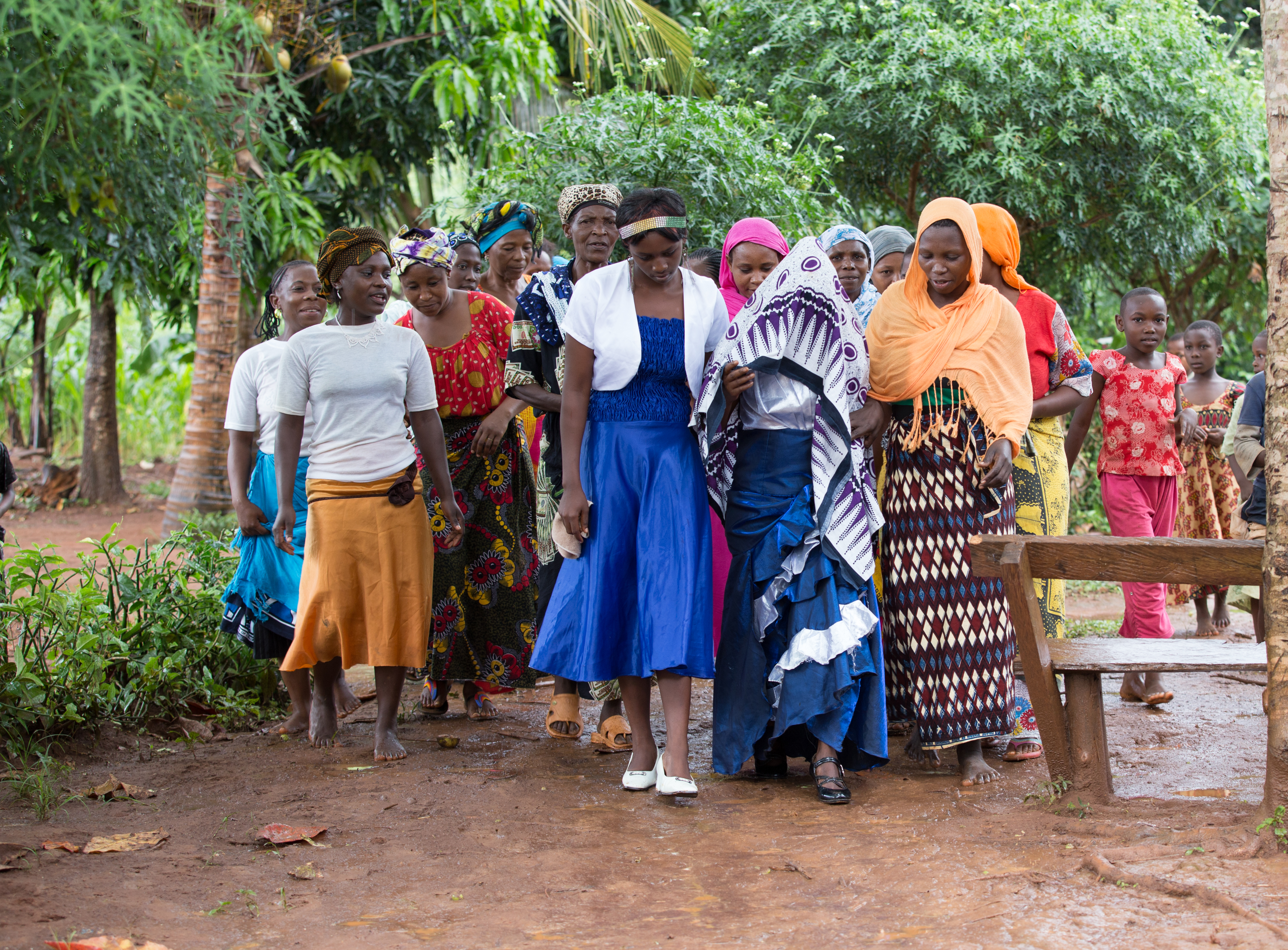 The image was taken during an traditional celebration when a man brings his bride price to the woman's family. Here the bride to be is escorted to see her husband to be, the women following her are singing and chanting some traditional songs. The face of the bride to be is covered by a khanga to signify her virginity This is an image of Cultural Fashion or Adornment from Tanzania